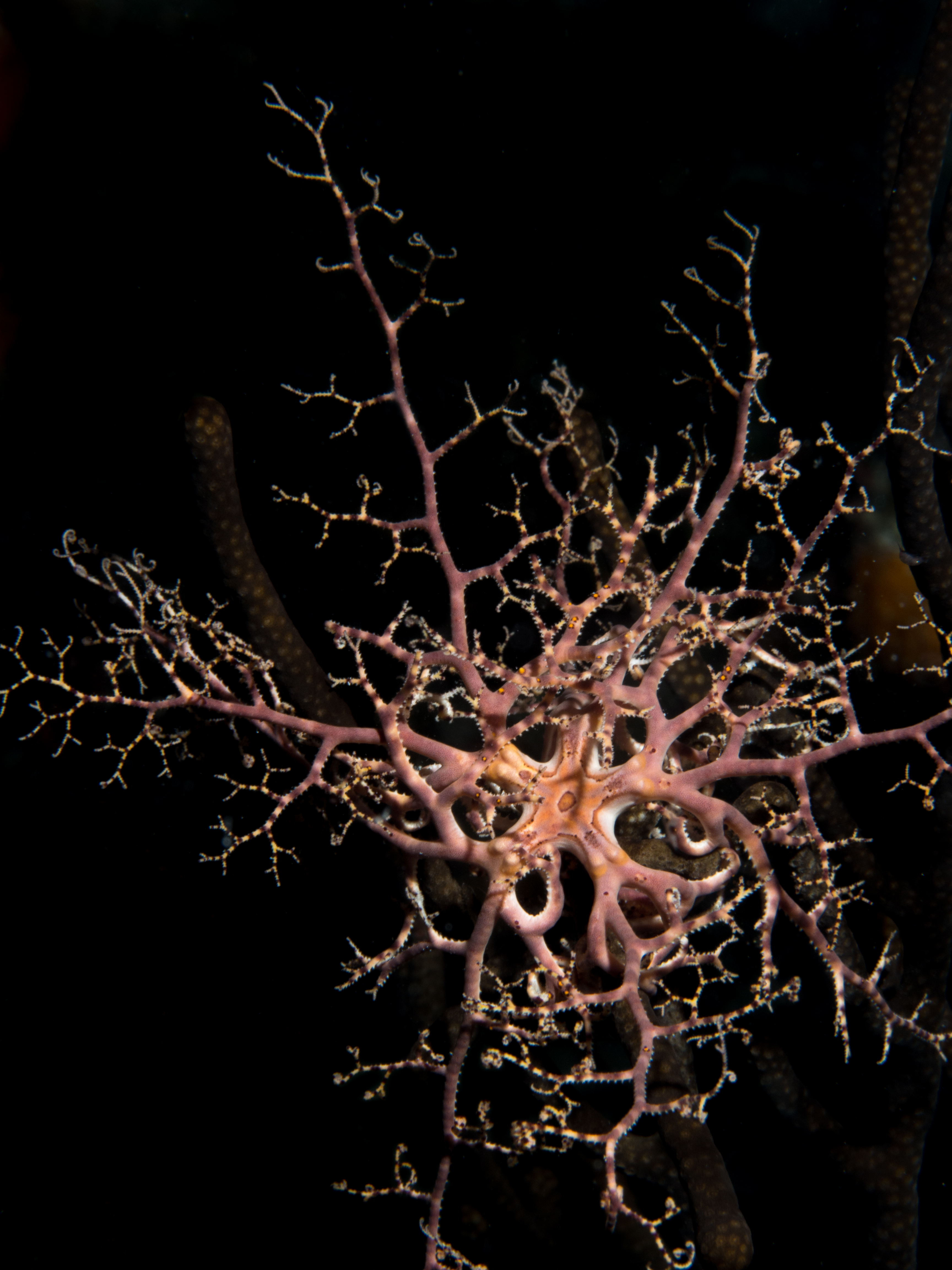 Astrophyton muricatum at night in Bari Reef, Bonaire